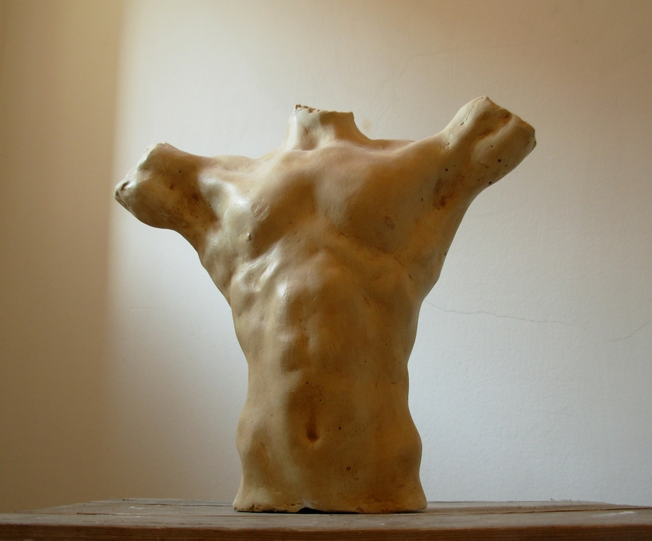 Vladislava Krstić, Torso-5